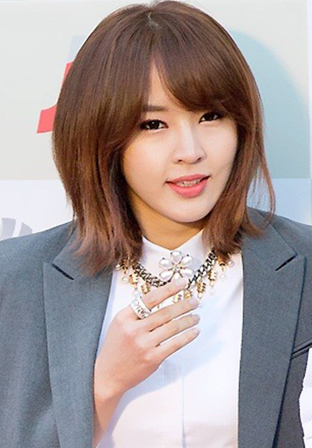 Jeon Ji-yoon on the red carpet of the Gaon Chart K-pop Awards, on February 12, 2014.